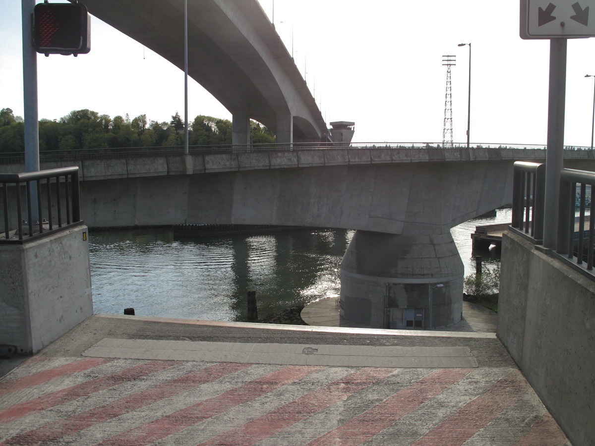 The Spokane Street Bridge, in Seattle, is a 1991-opened swing bridge with two consecutive (as opposed to side-by-side) swing spans that move in unison when the bridge is opened for water traffic. This photo shows the east swingspan in the turned position, viewed from the east approach viaduct, looking west. The higher bridge in the background is the West Seattle Bridge, opened in 1984.